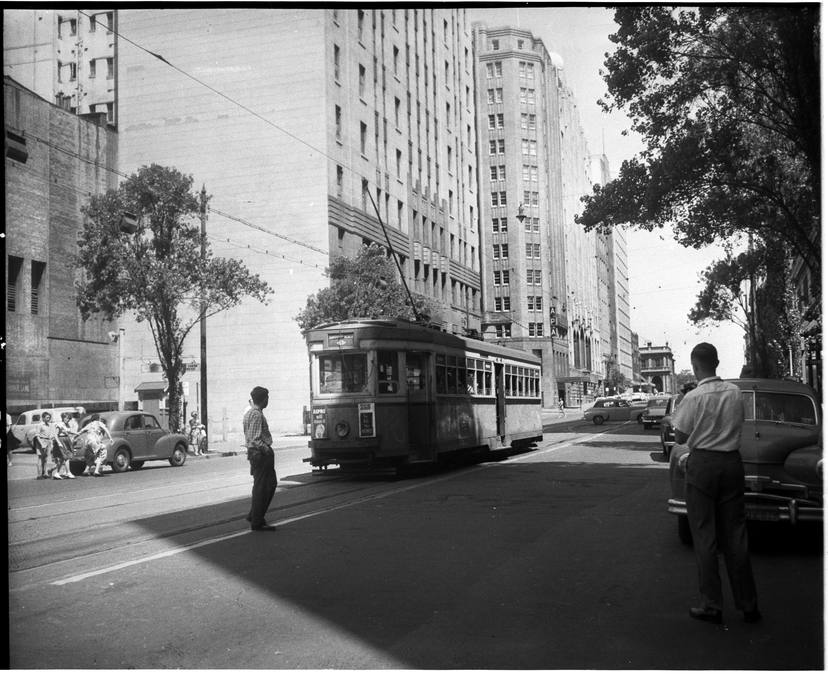 Call no.: Australian Photographic Agency - 10036 Format: photonegative Find more detailed information about this photograph: Search for more great images in the State Library's collections: .au/search/SimpleSearch.aspx From the collection of the State Library of New South Wales